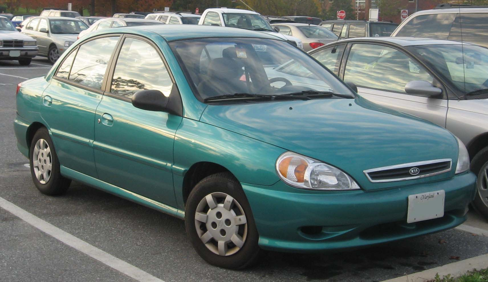 2001-2002 Kia Rio photographed in College Park, Maryland, USA.